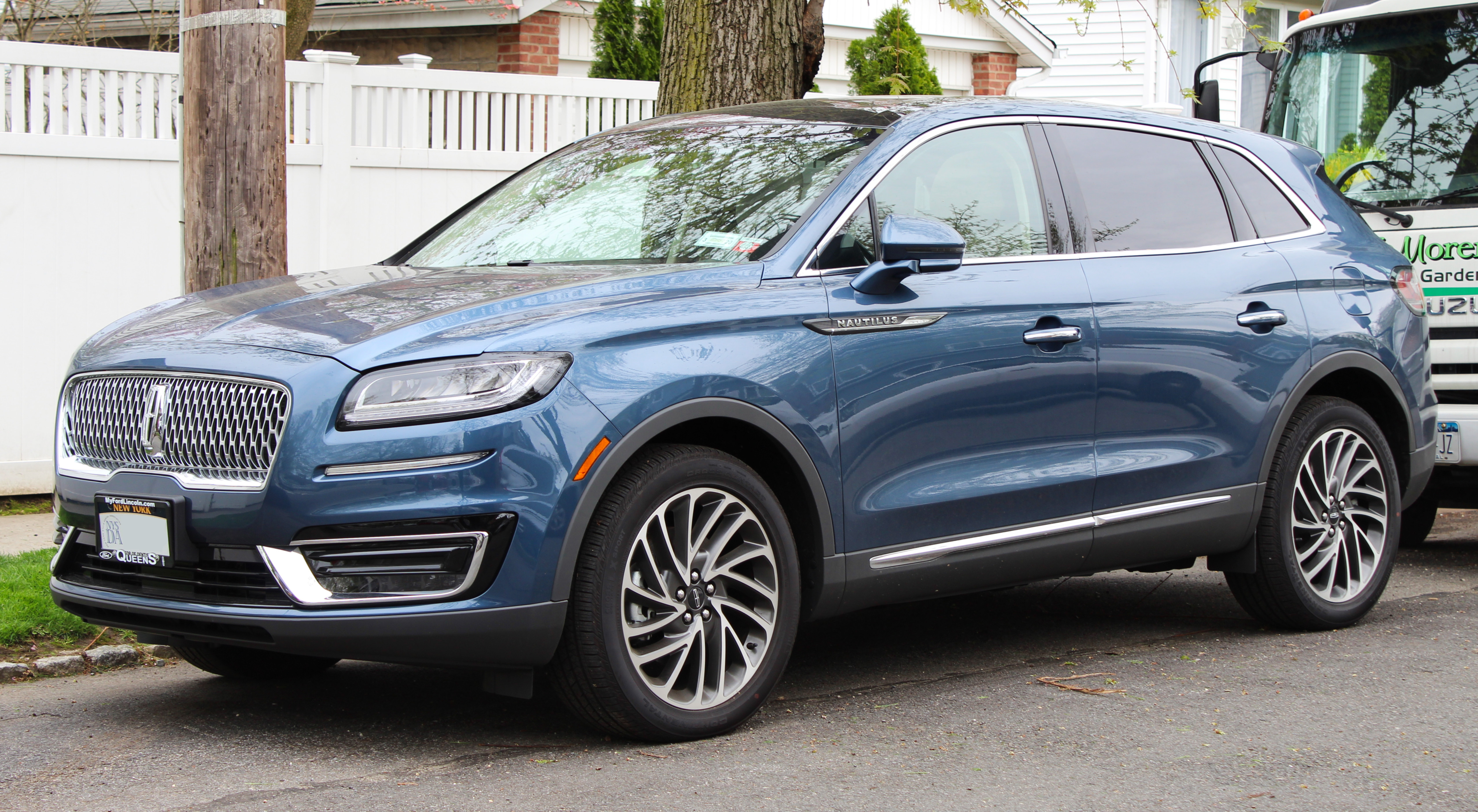 A 2019 Lincoln Nautilus photographed in Queens, New York, USA